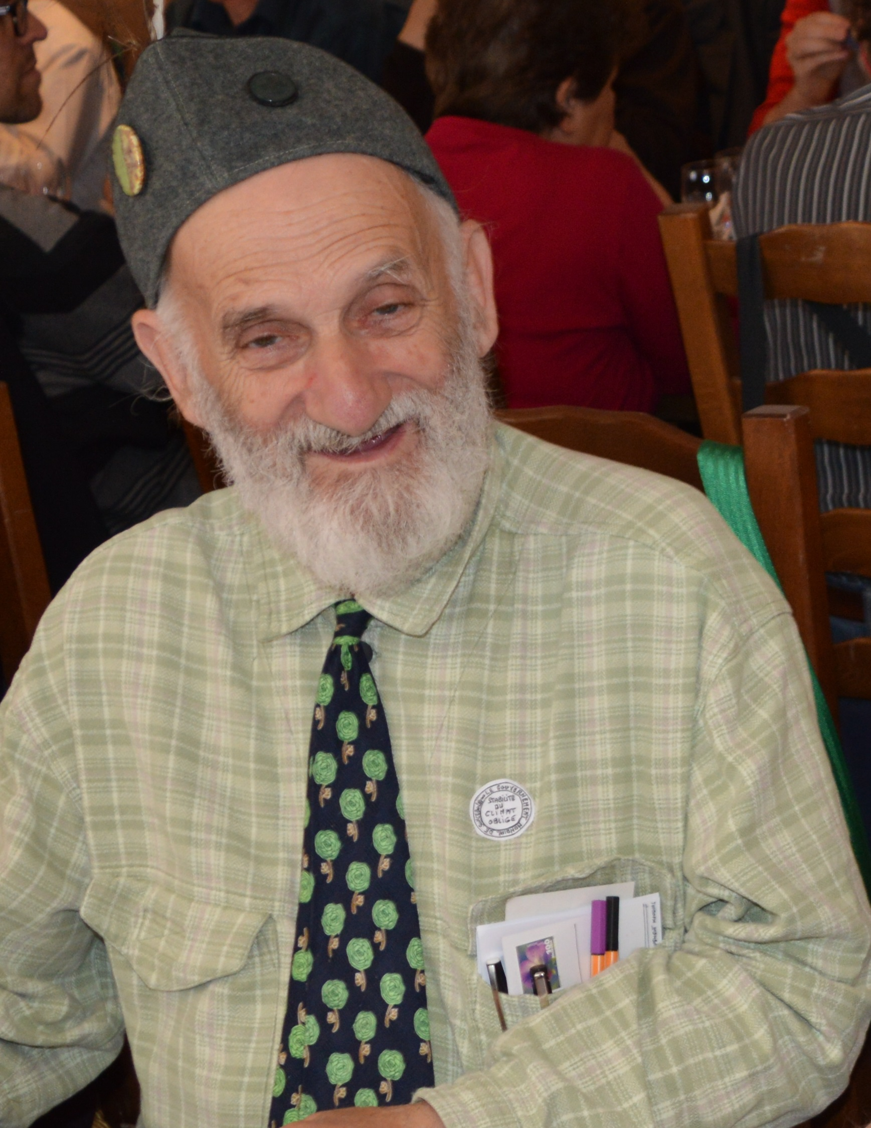 Parzival (Serge Reverdin) during the Third International Conference on Esperanto Teaching at La Chaux-de-FondsEsperanto: Parzival (Serge Reverdin) dum la 3-a Tutmonda kolokvo pri la instruado de Esperanto en La Chaux-de-Fonds